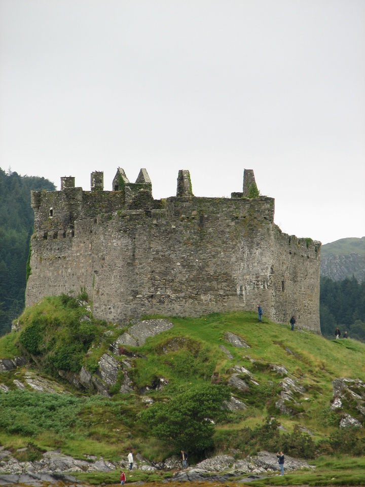 Tioram Castle in Scotland by Dave Wilkie.